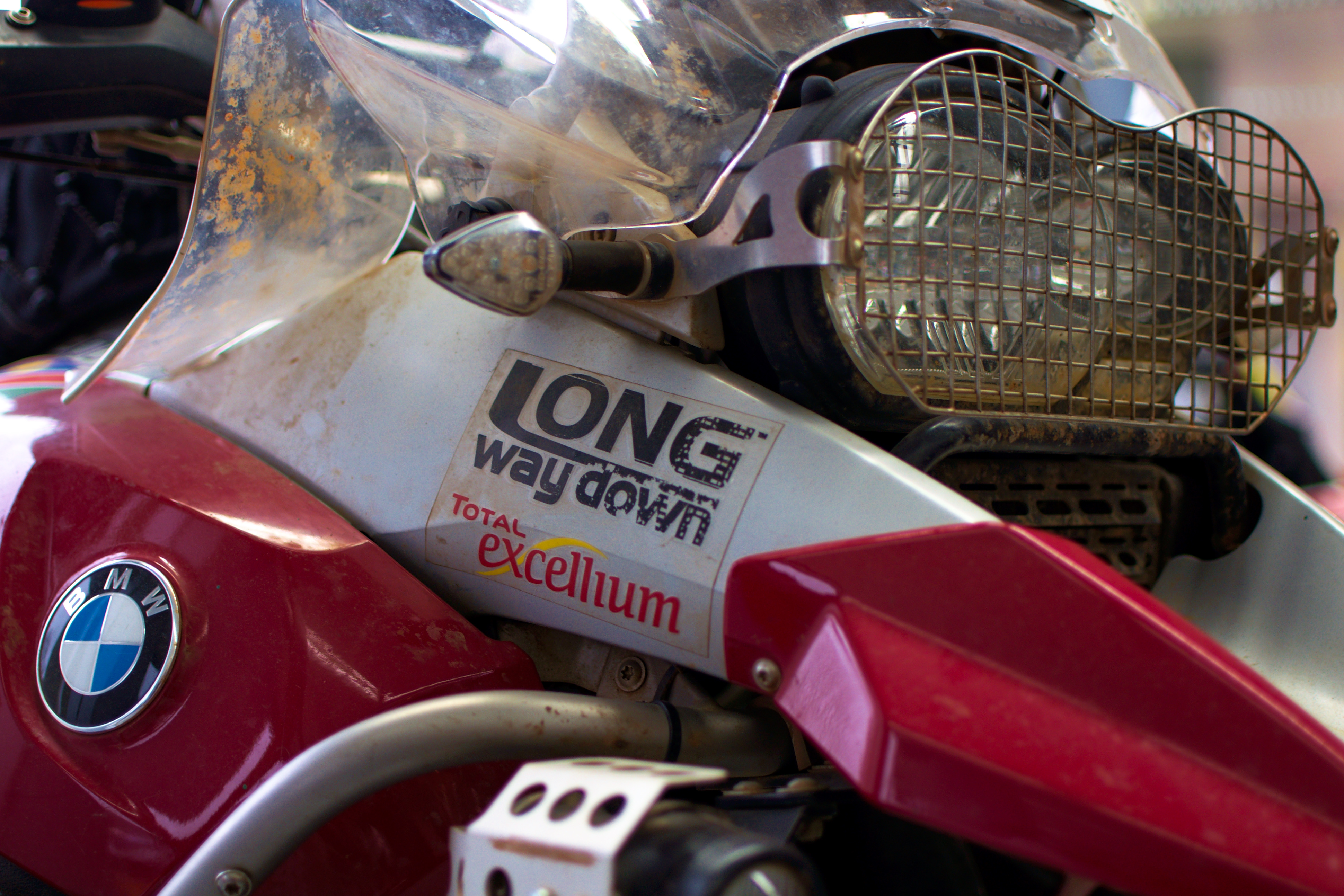 Ridden by Charley Boorman. Taken at the Pistonheads Sunday Service at BMW UK.